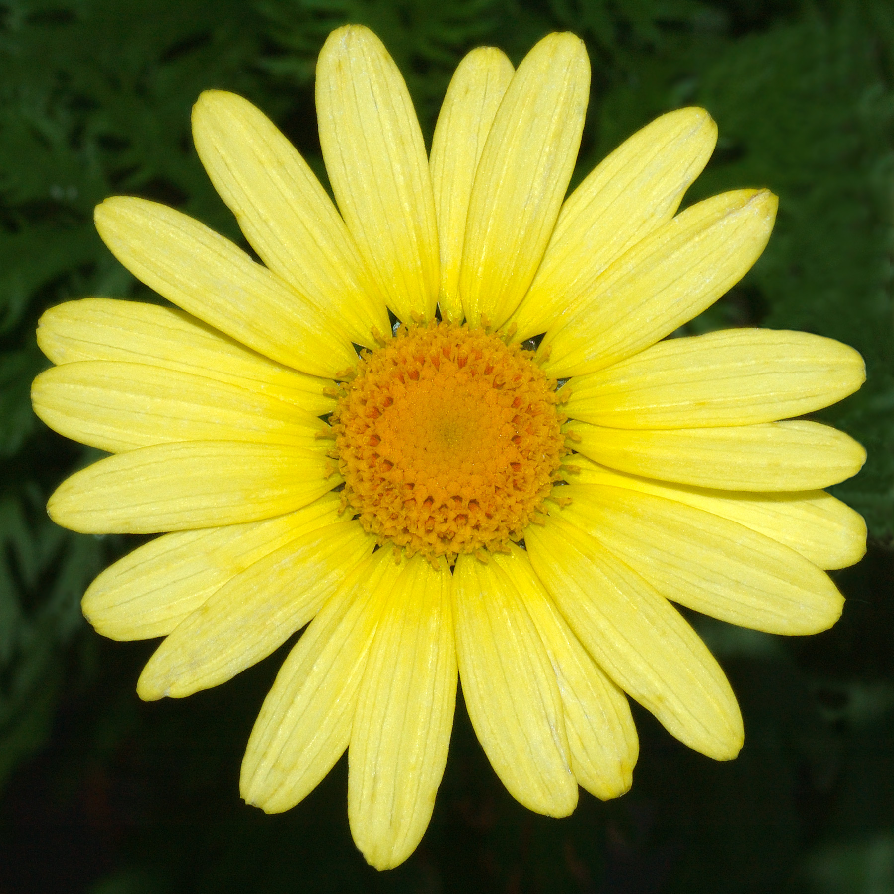 This image shows a Dill daisy (Argyranthemum frutescens).